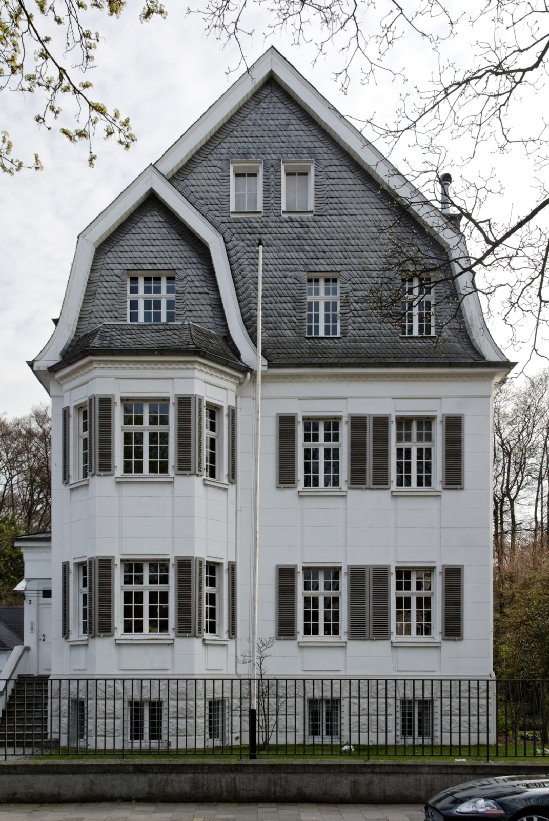 House Meliesallee 3 in Düsseldorf-Benrath, Germany